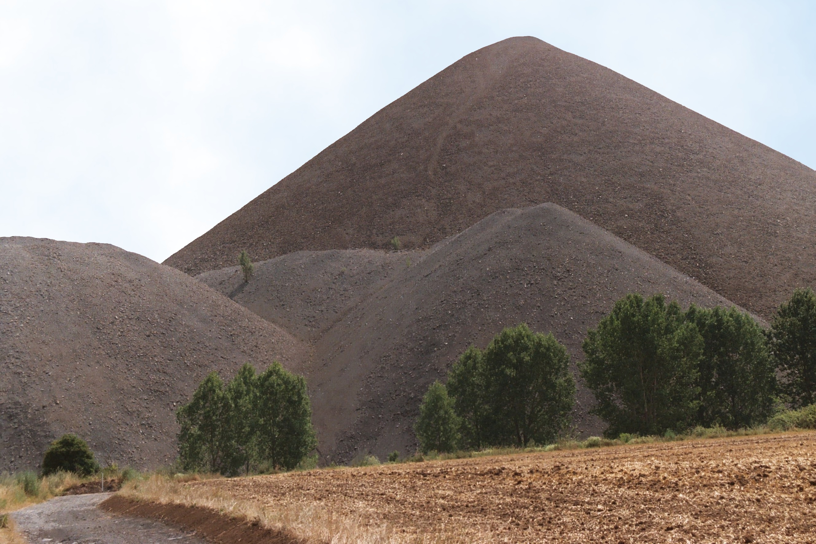 Volkstedt (Lutherstadt Eisleben), the dump of the "Fortschrittschacht"